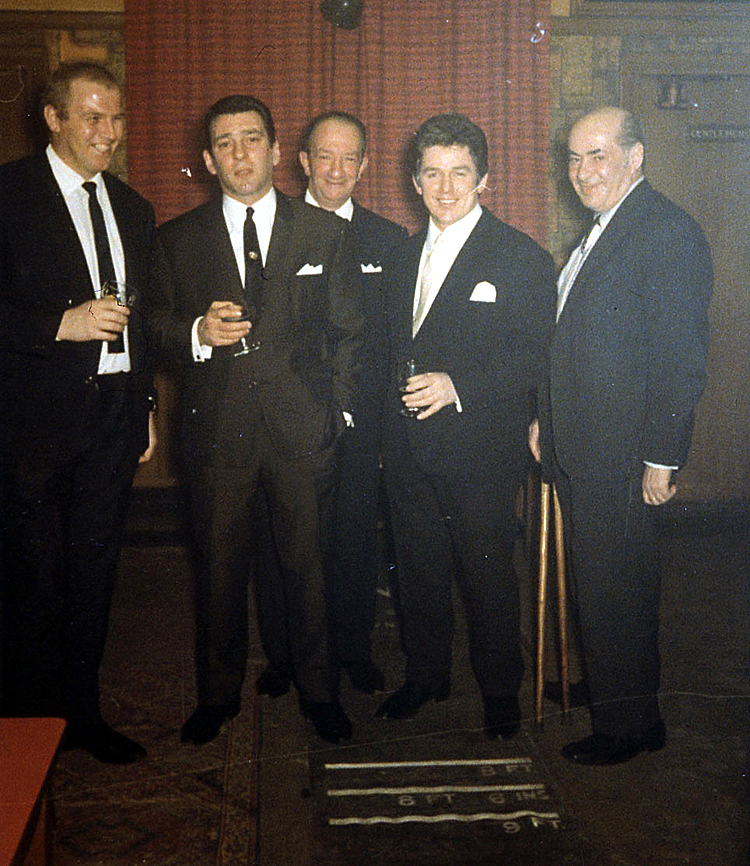 Photograph of London gangster Reginald "Reggie" Kray (second left) taken in the months leading up to his trial in 1968. The evidence from this file and others resulted in he and his brother Ronald being sentenced to life imprisonment.